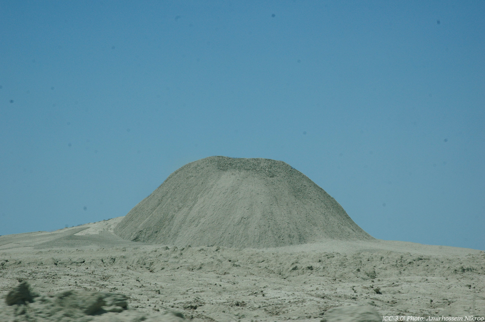 Chabahar Mud Volcano, Sistan and Baluchestan, Iran